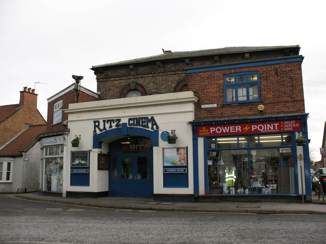 The Ritz Cinema, Thirsk What an excellent facility in a small country town! The cinema is run entirely by volunteers and has been constantly improved over the last 10 years.